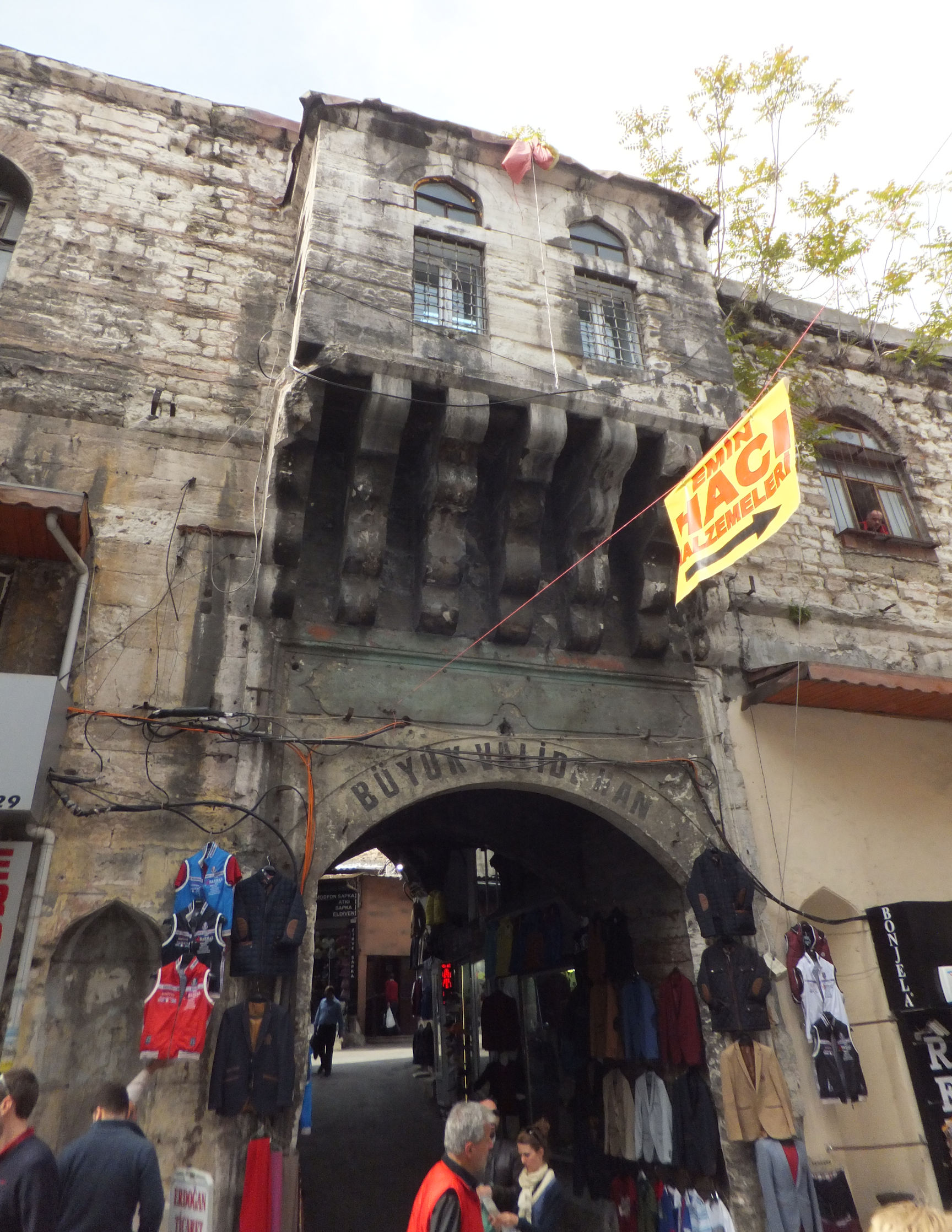 Büyük Valide Han entrance